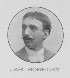 Portrait of Jaromír Borecký (1869-1951), Czech poet, translator and librarian.